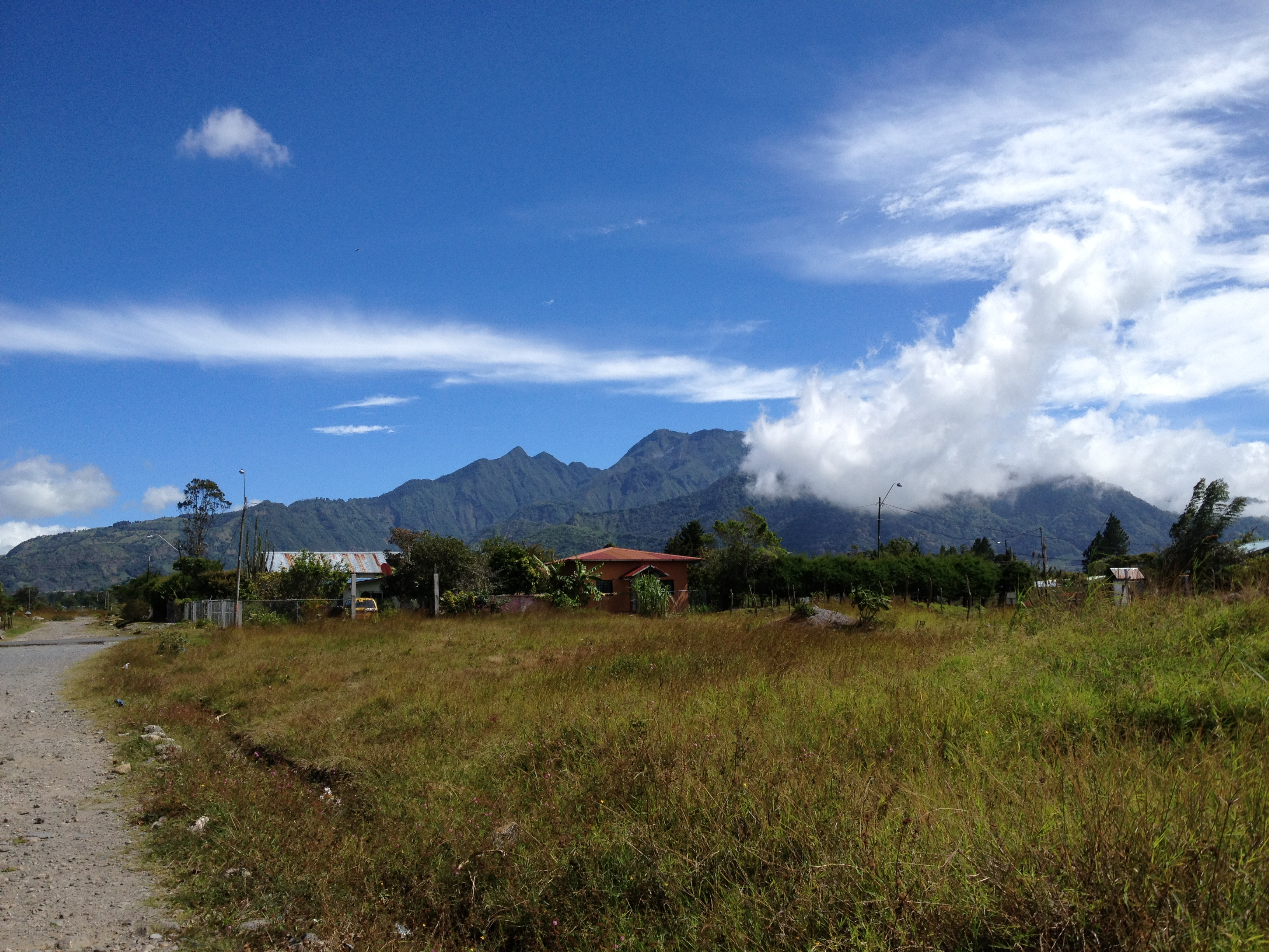 Vista panorámica del Volcán Barú